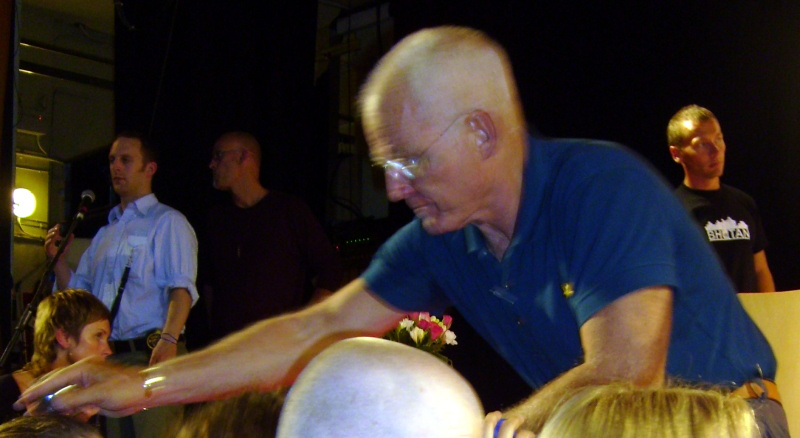 Ole Nydahl blessing people at his lecture in London, UK. August, 2007.